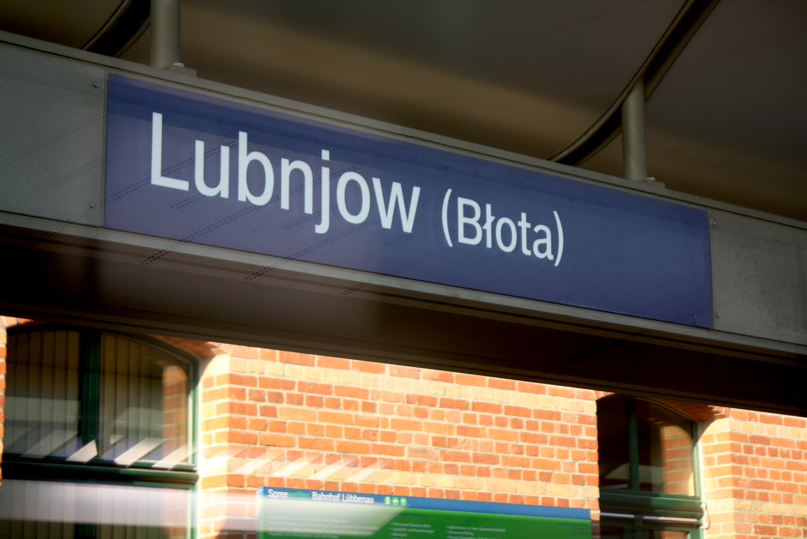 The sign in Lower Sorbian bearing the name of the railway station Lubnjow (German Lübbenau, Brandenburg, Germany).